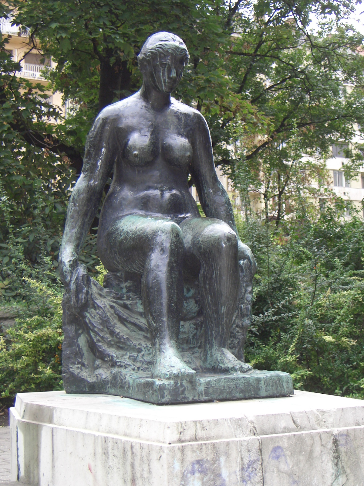 Bronz sculpture of a sitting woman, by Béni Ferenczy, in Budapest, Horváth-park, 1961.